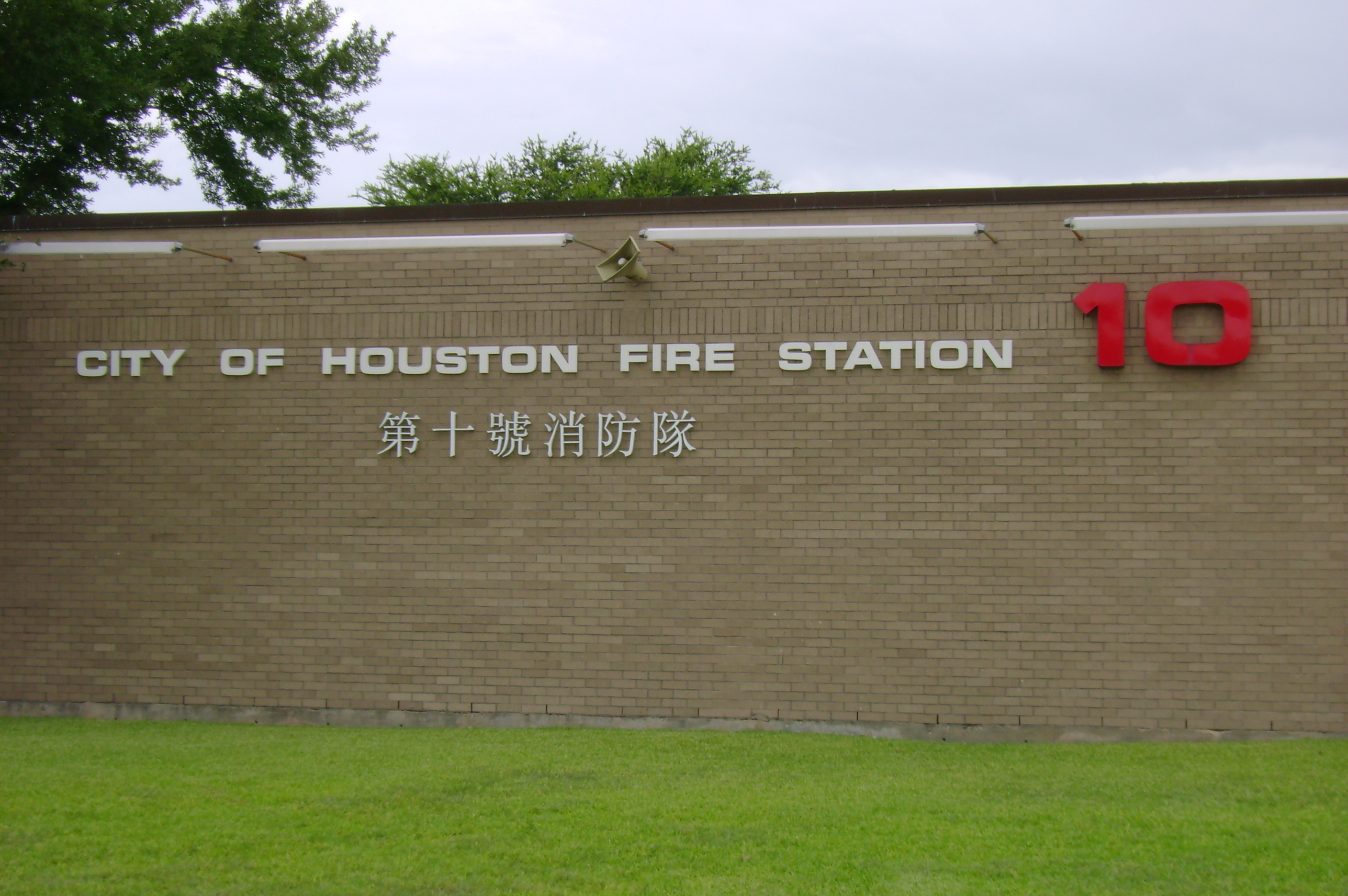 Houston Fire Department Station 10 Bellaire (第十号消防队 Dìshíhào Xiāofángduì "Fire Brigade #10") - 6600 Corporate Drive, Houston, Texas 77036